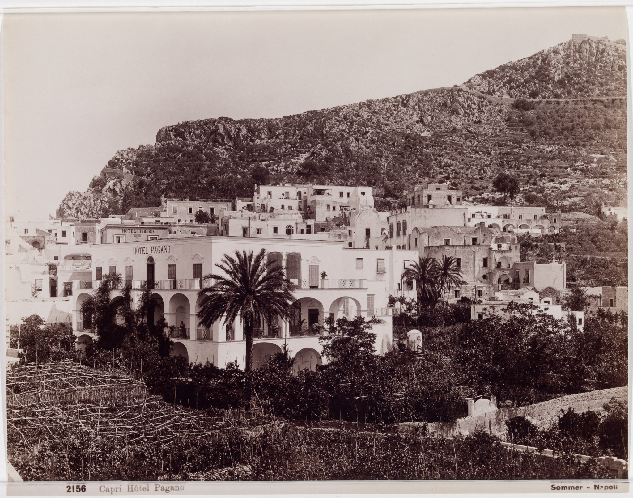 Giorgio Sommer (1834-1914), "Capri - Hotel Pagano". Catalogue number: 2156.